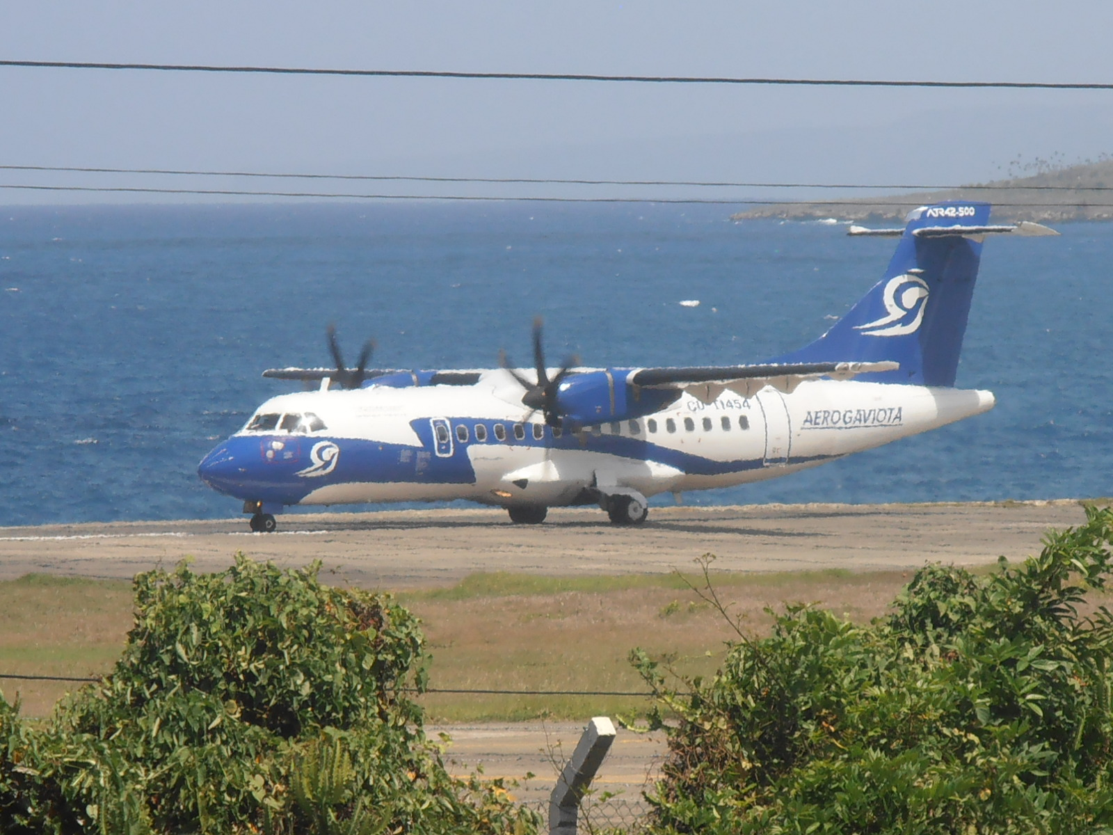 Aerogaviota ATR-42-500 (CU-T1454) at Gustavo Rizo Airport, Baracoa, Cuba